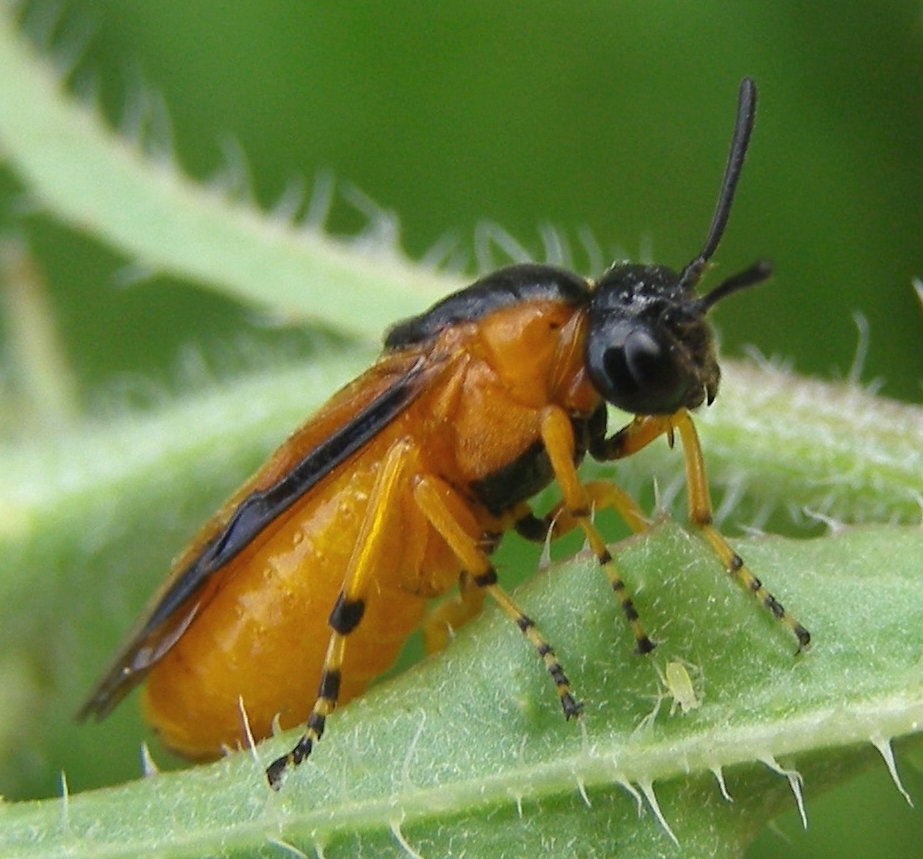 Arge ochropus